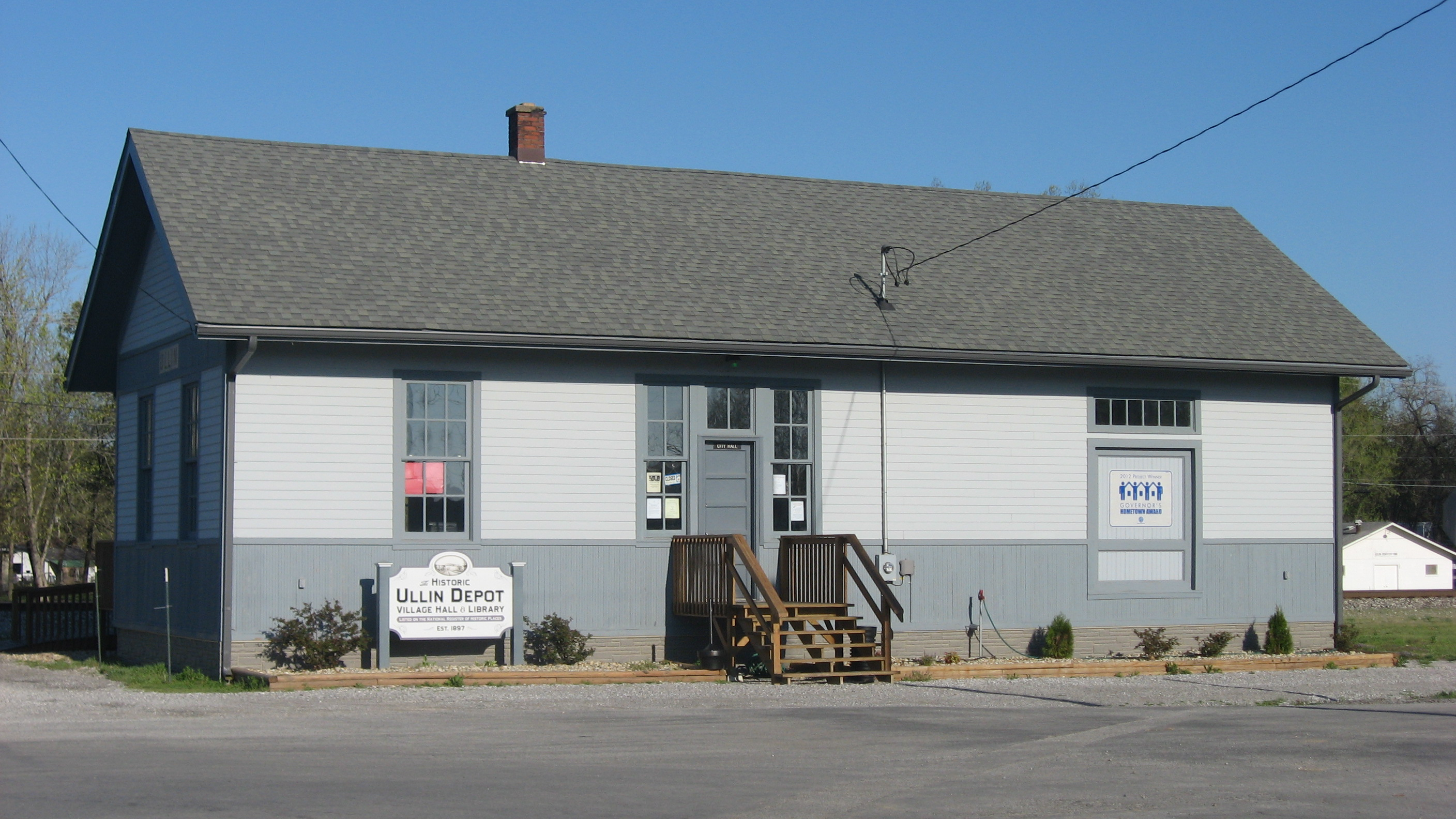 Front and southern end of the former Ullin Illinois Central Railroad Depot, located at the junction of Ullin and Central Avenues in Ullin, Illinois, United States. Built in 1897, it is listed on the National Register of Historic Places.